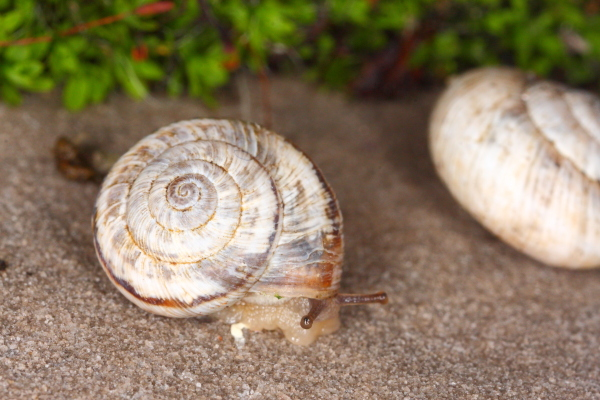 Helicopsis striata ssp. hungarica from Pannonian Plain, Austria